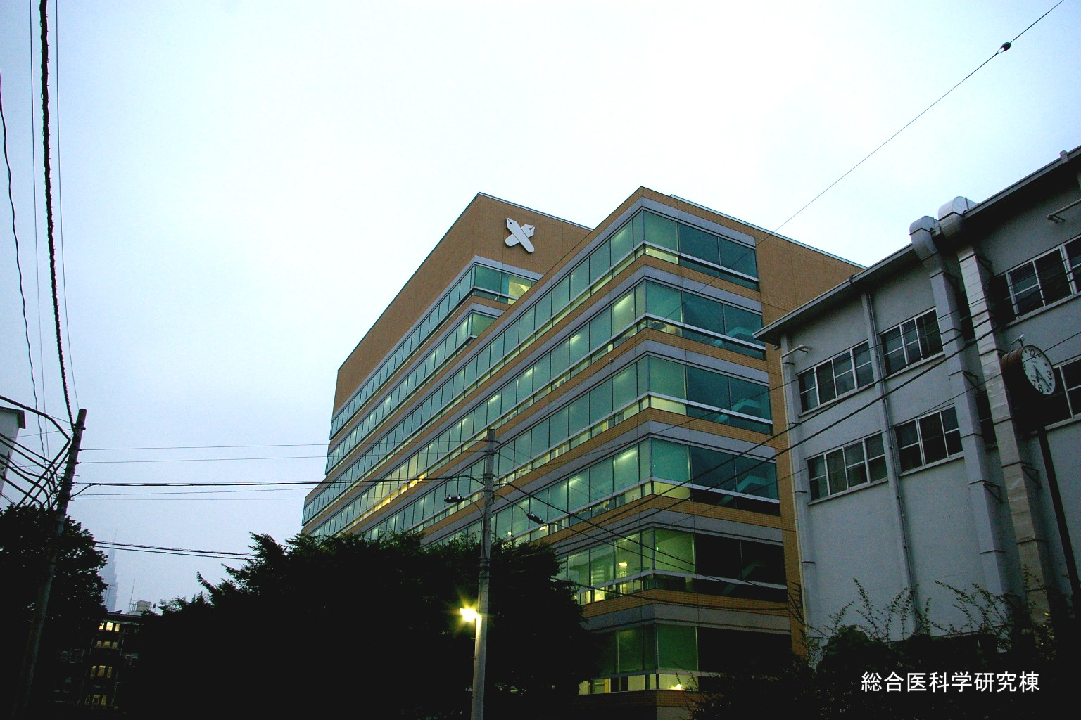 It was taken in Tokyo.